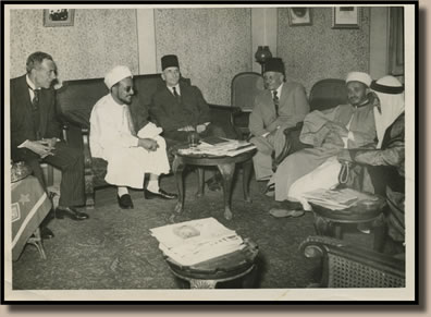 1947 - Saleh Harb Pasha & visitors Dar al-Shura